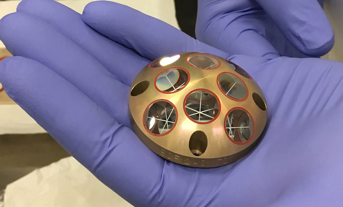 Laser Retroreflector for InSight spacecraft